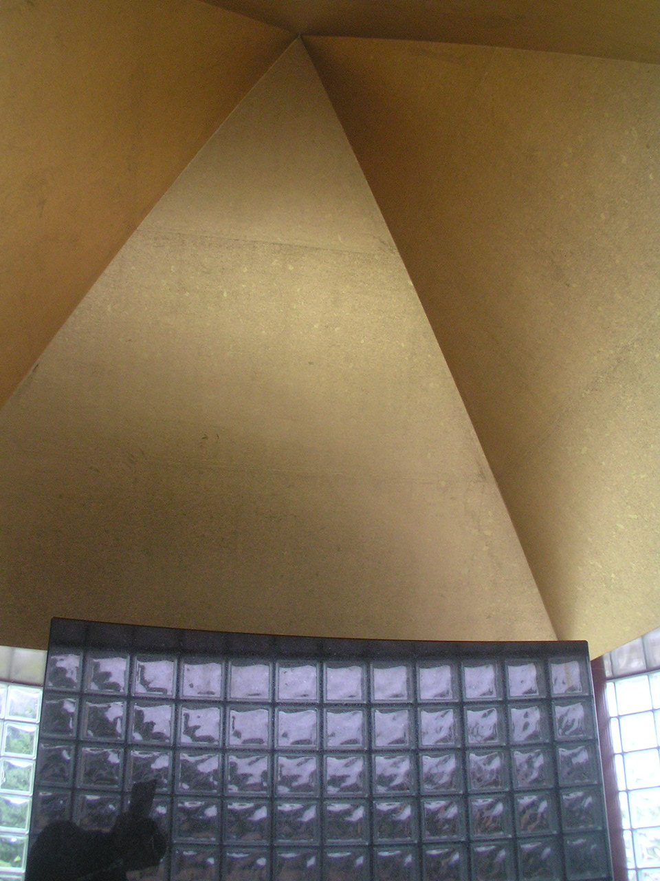 okanoyama-Museum,岡之山美術館 横尾忠則瞑想室